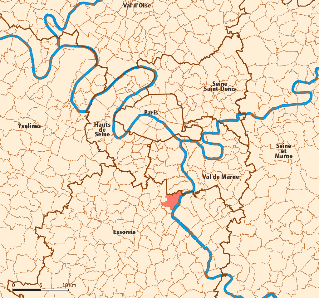 Created map myself.